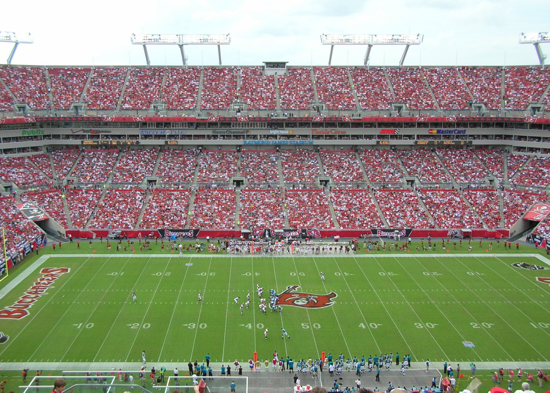 Tampa Bay Buccaneers vs Jacksonville Jaguars at Raymond James Stadium, Tampa, Florida, USA